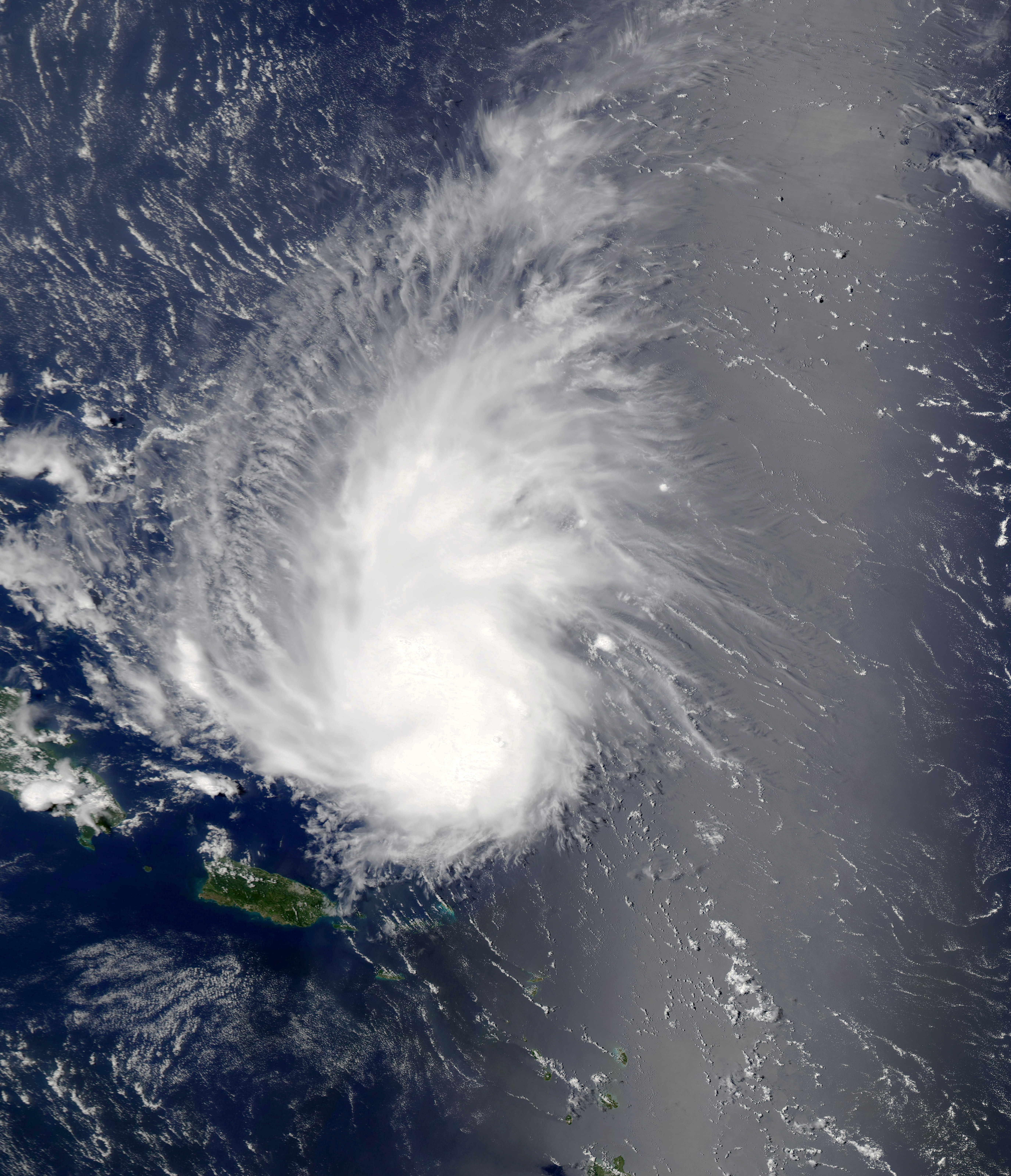 Tropical Wave Dorian on July 29, 2013, 2 days after losing tropical cyclone status.